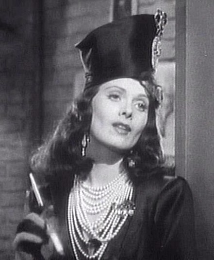 Cropped screenshot of Stephanie Bachelor from the film Lady of Burlesque.